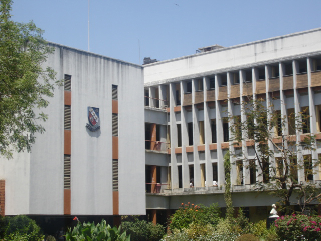 clicked by me